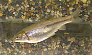 The Arroyo chub (Gila orcuttii) is a cyprinid fish found only in the coastal streams of southern California, United States.